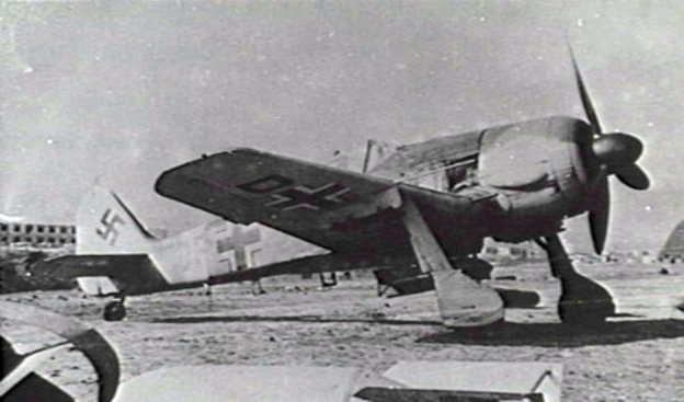 A German Focke-Wulf Fw 190F fighter. The Fw 190F/G were specialized ground attack versions.